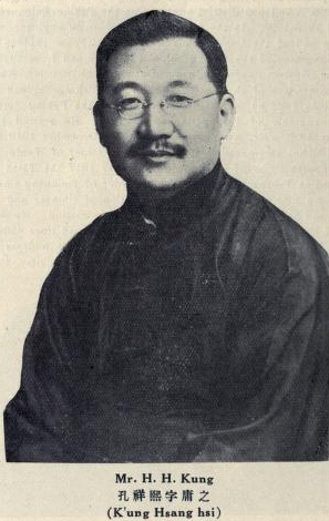 Kong Xiangxi, Yongzhi (H.H.Kung) (1880 - 1967)